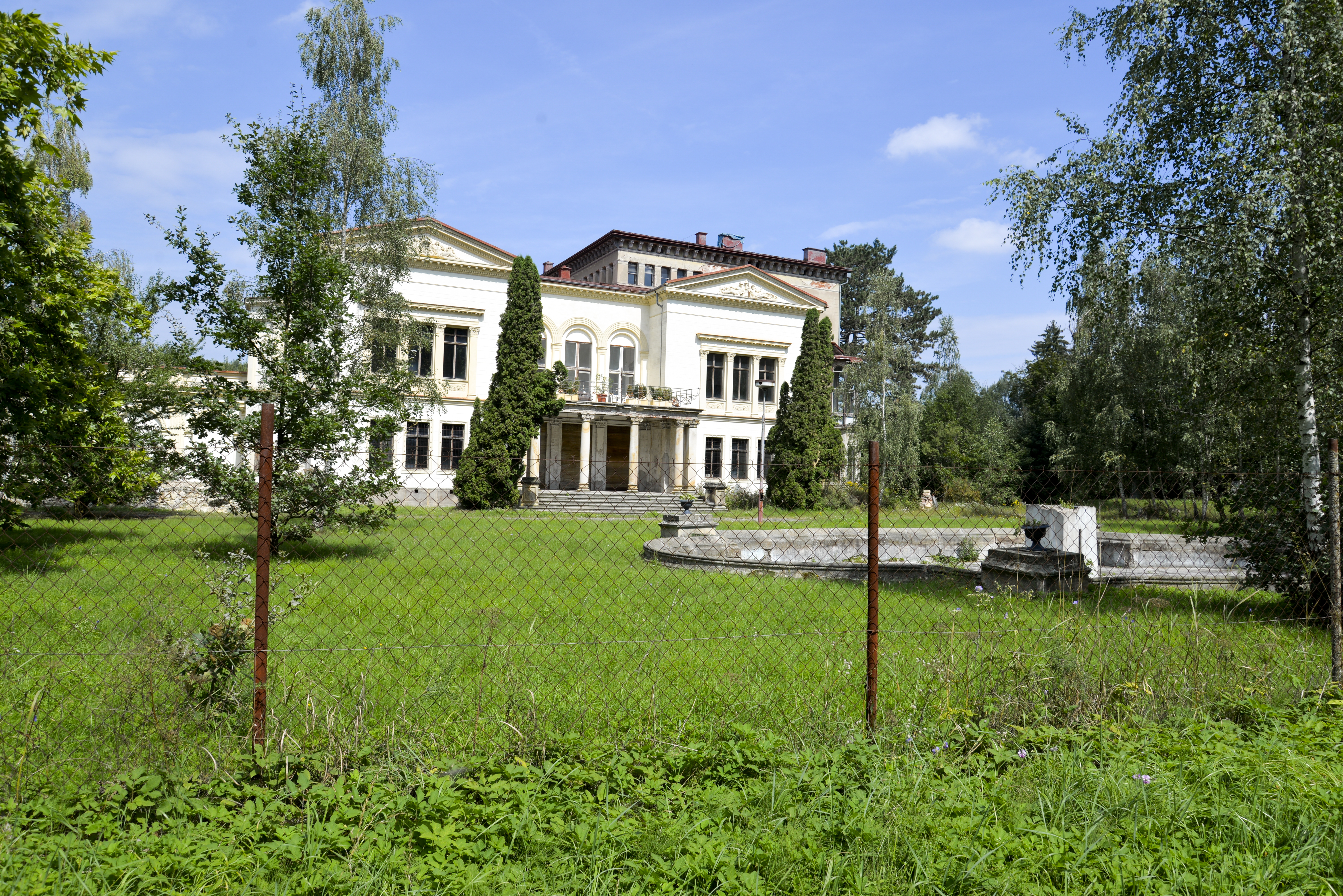 Chateau, Josefův Důl, northern part of the village, Josefův Důl (Mladá Boleslav District).